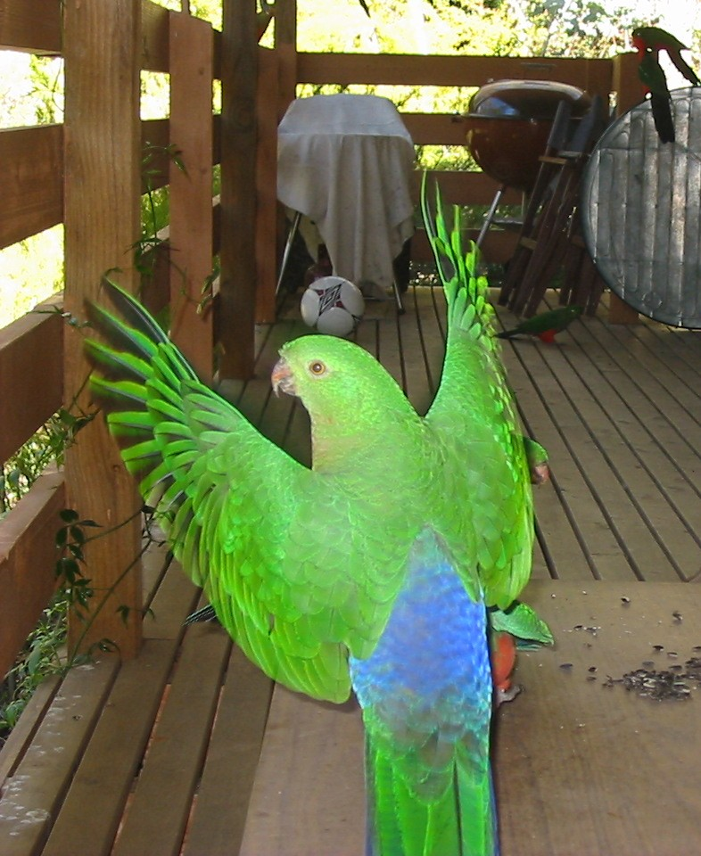 Australian King Parrot. Taken with a Canon Powershot A30 digital camera at Jamieson, Victoria, Australia.